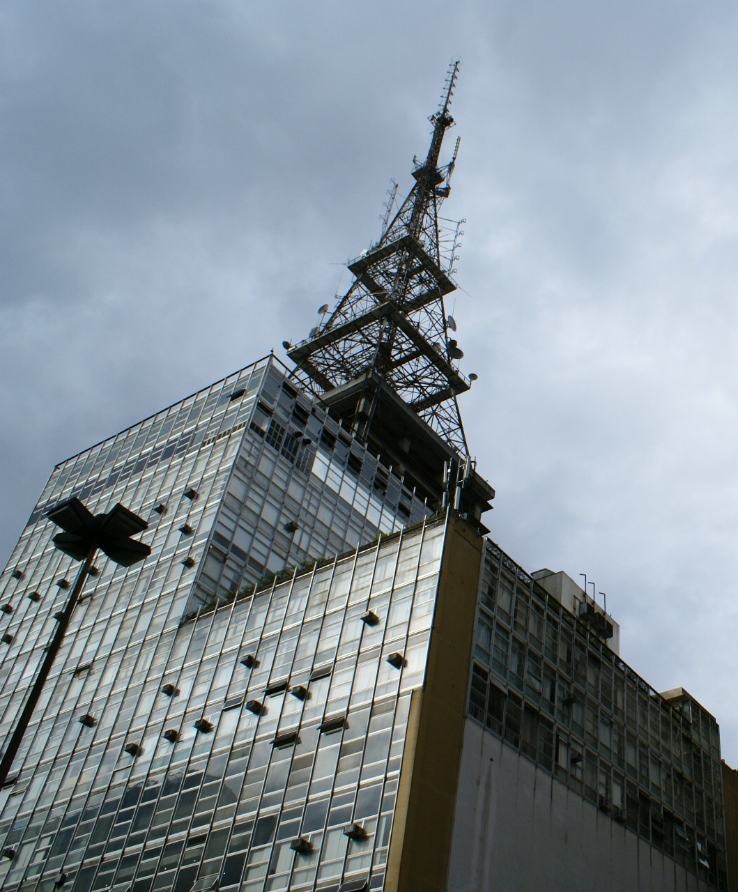 Gazeta TV Headquarters in Paulista Avenue, São Paulo City, Brazil.